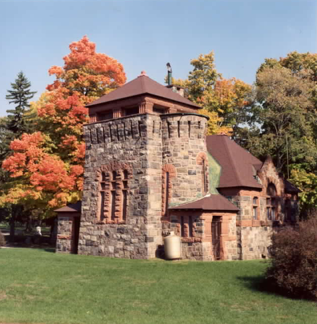 The back of Starkweather Chapel, an example of Richardsonian Romanesque architecture, in Ypsilanti, Michigan's Highland Cemetery.